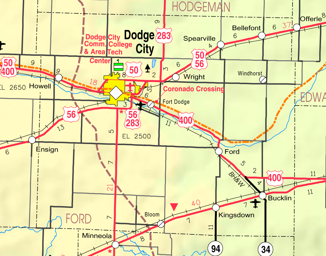 This map of Ford County, Kansas, USA, is copied at a resolution of 300 pixels/inch from the original PDF file.